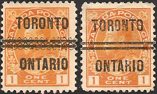 Two types of precancel on the same Canadian stamp.